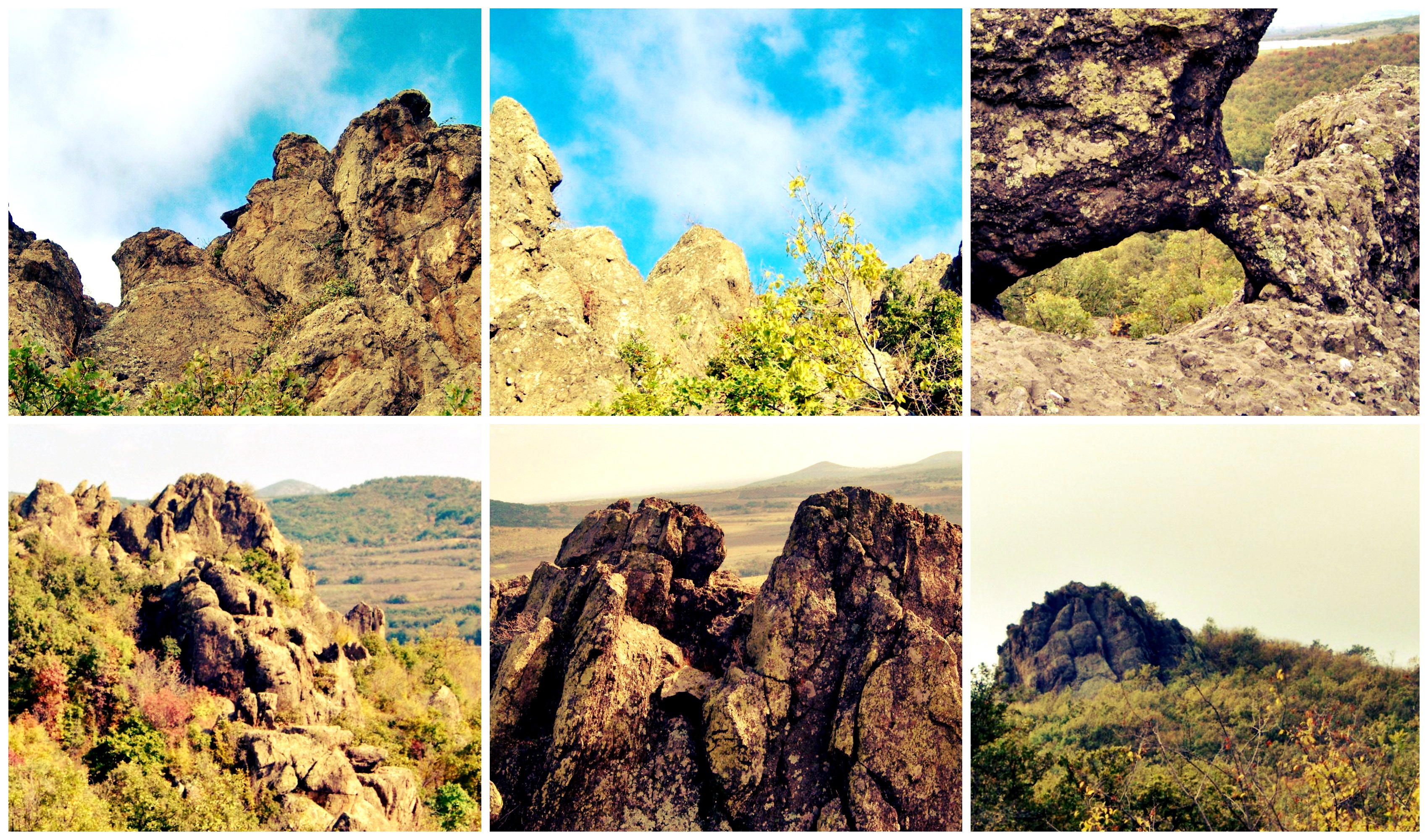 Stone Wedding Medovo BG